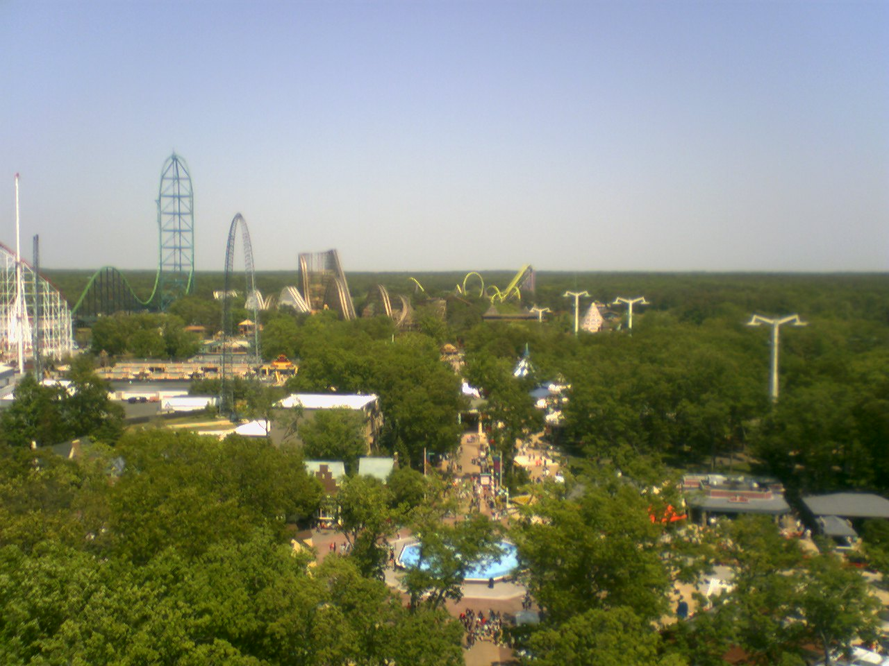 Six Flags Great Adventure view from the top of the ferris wheel